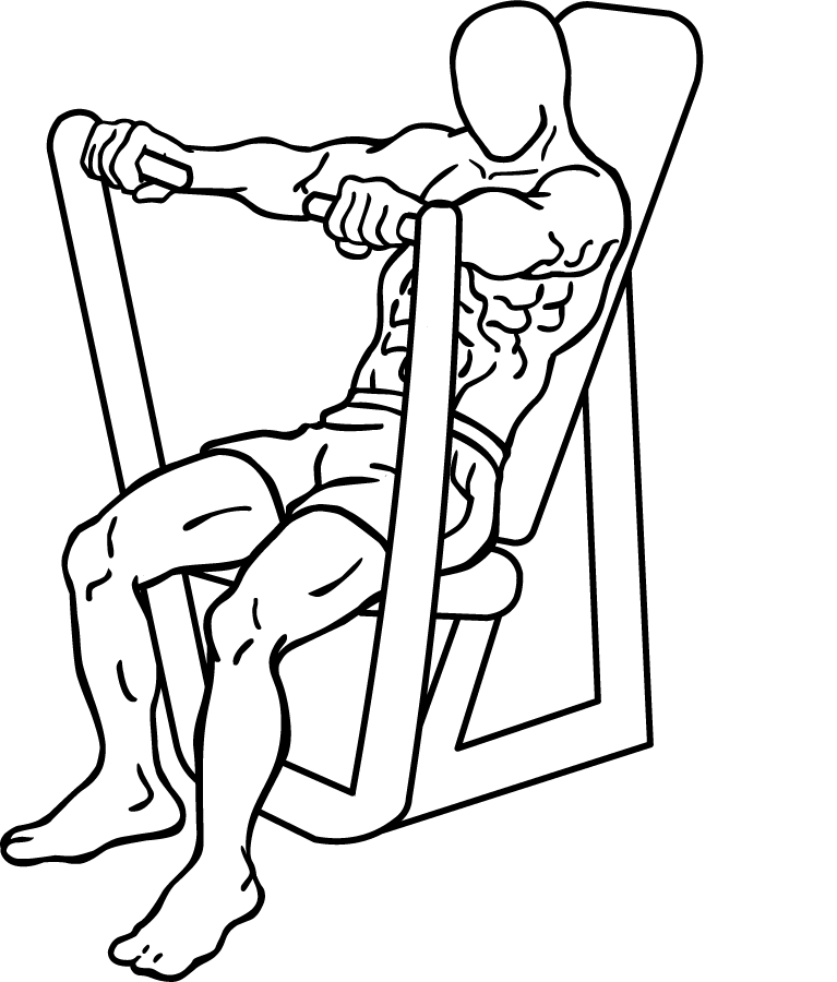 an exercise of chests